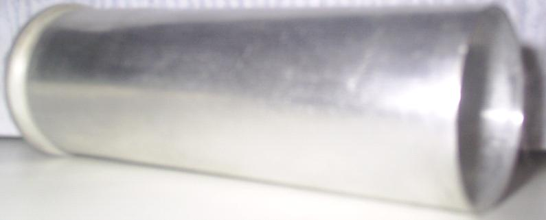 tear gas bomb